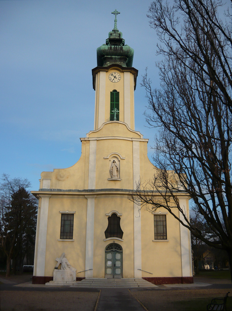 Roman Catholic temple of Rákoshegy (part of the 17th district of Budapest)